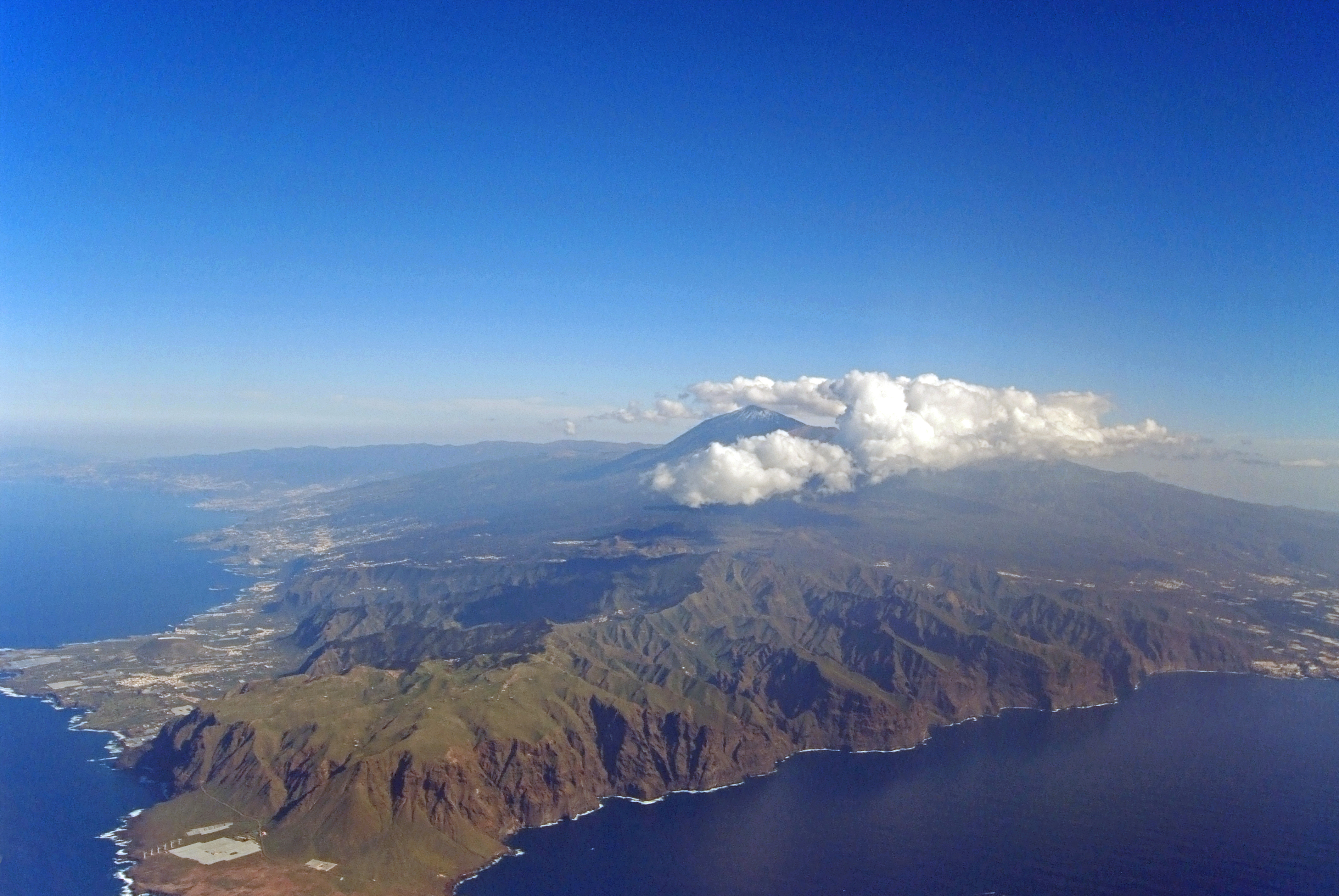 Tenerife from airplane